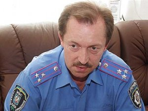 Volodymyr Polischuk, representative of Ministry of Internal Affairs of Ukraine. The right to use the photo: [3].